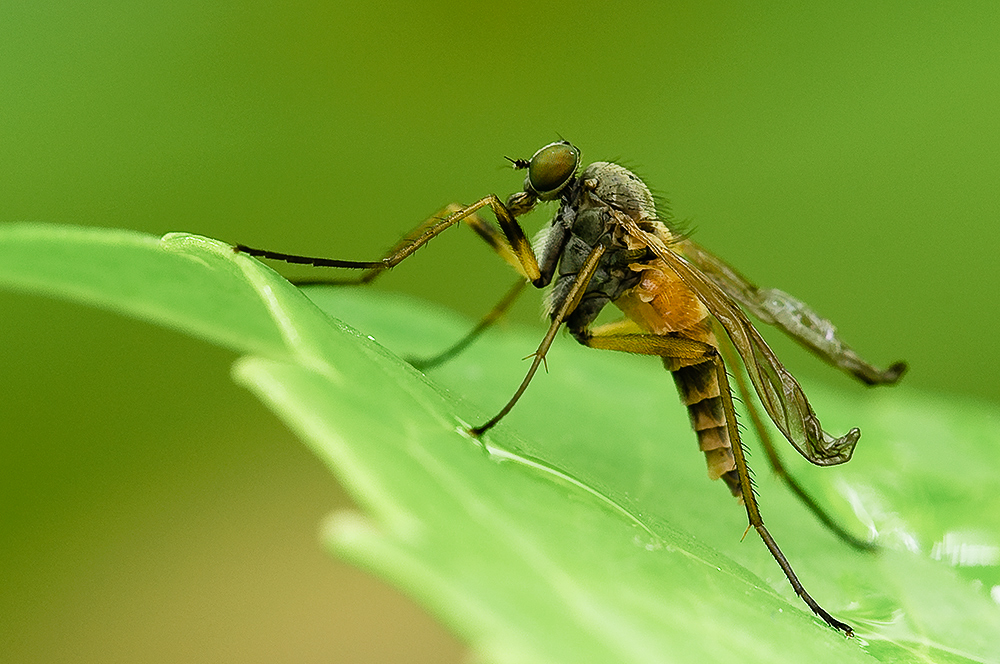 Genus Rhagio , Rhagionidae. River Umia, Pontevedra, Galicia, (Spain), 2009 if you want to use one of my photos, USE IT, but give me some feedback please